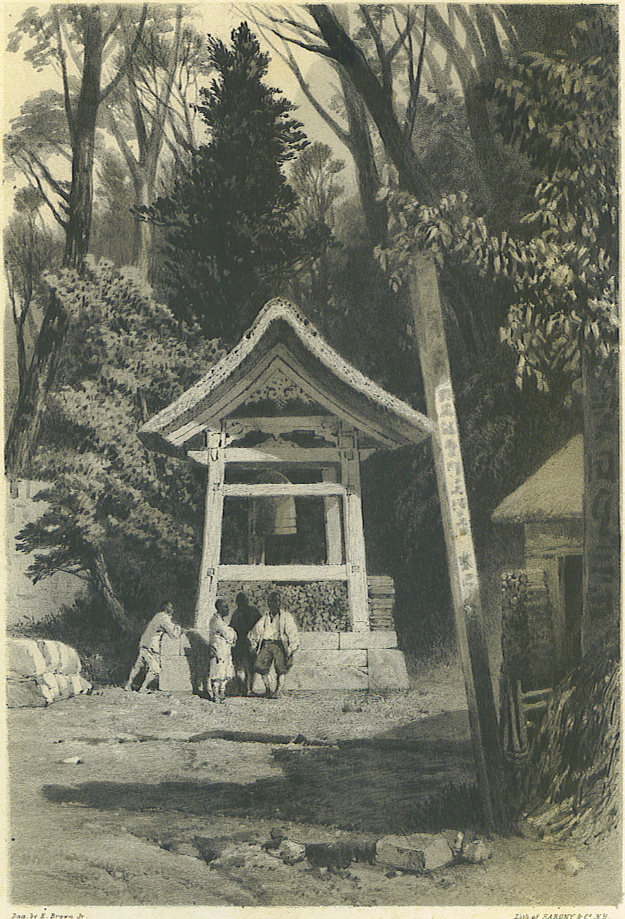 "Bell house at Shimoda" (lithograph copy of daguerreotype image, 1856).